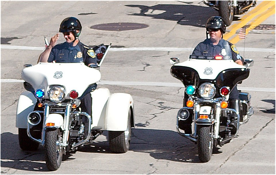 Police Servi-Car during Harley-Davidson's 105th anniversary parade in Milwaukee, Wisconsin